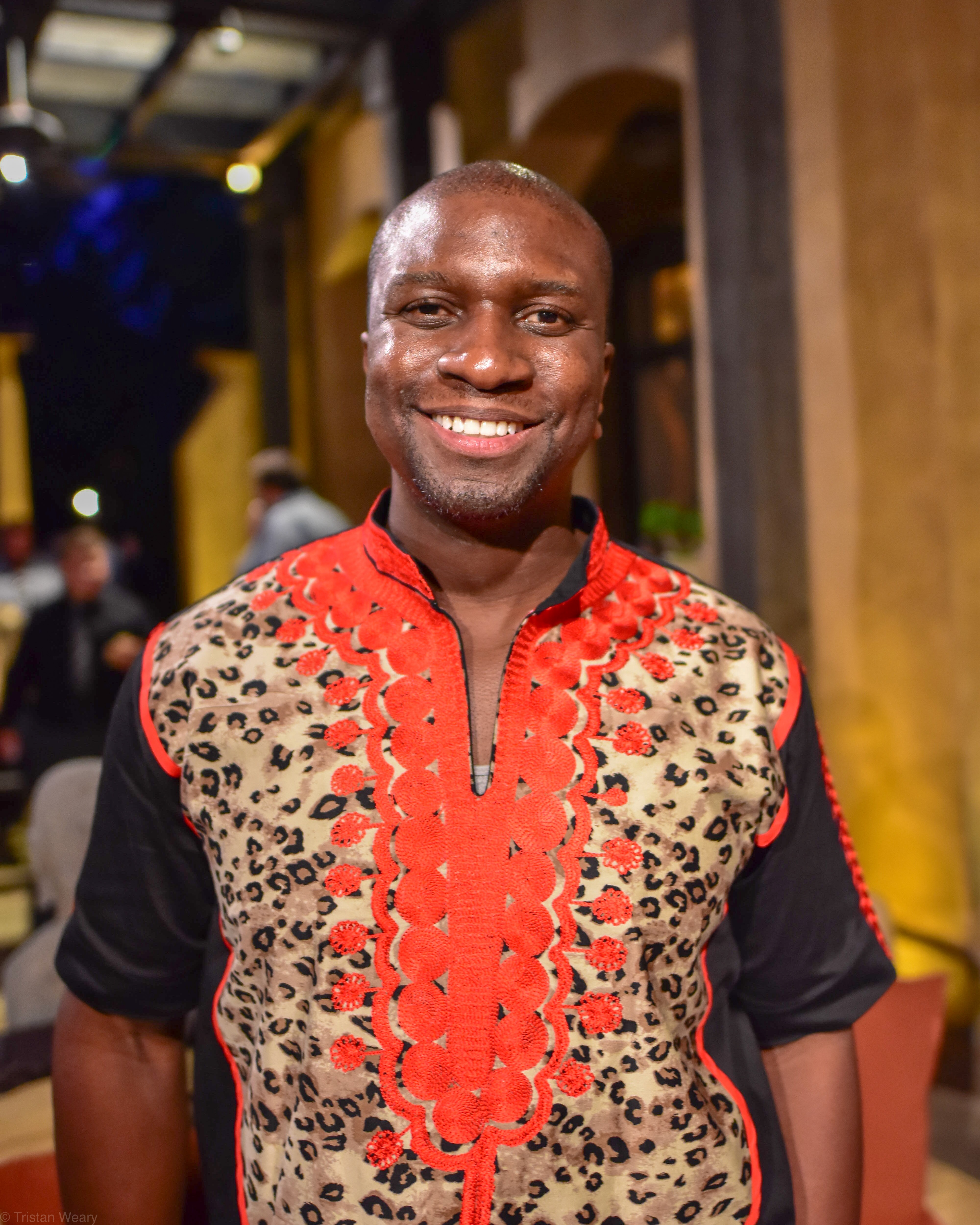 Adetokumboh M'Cormack at a private event in Grandview Heights, OH